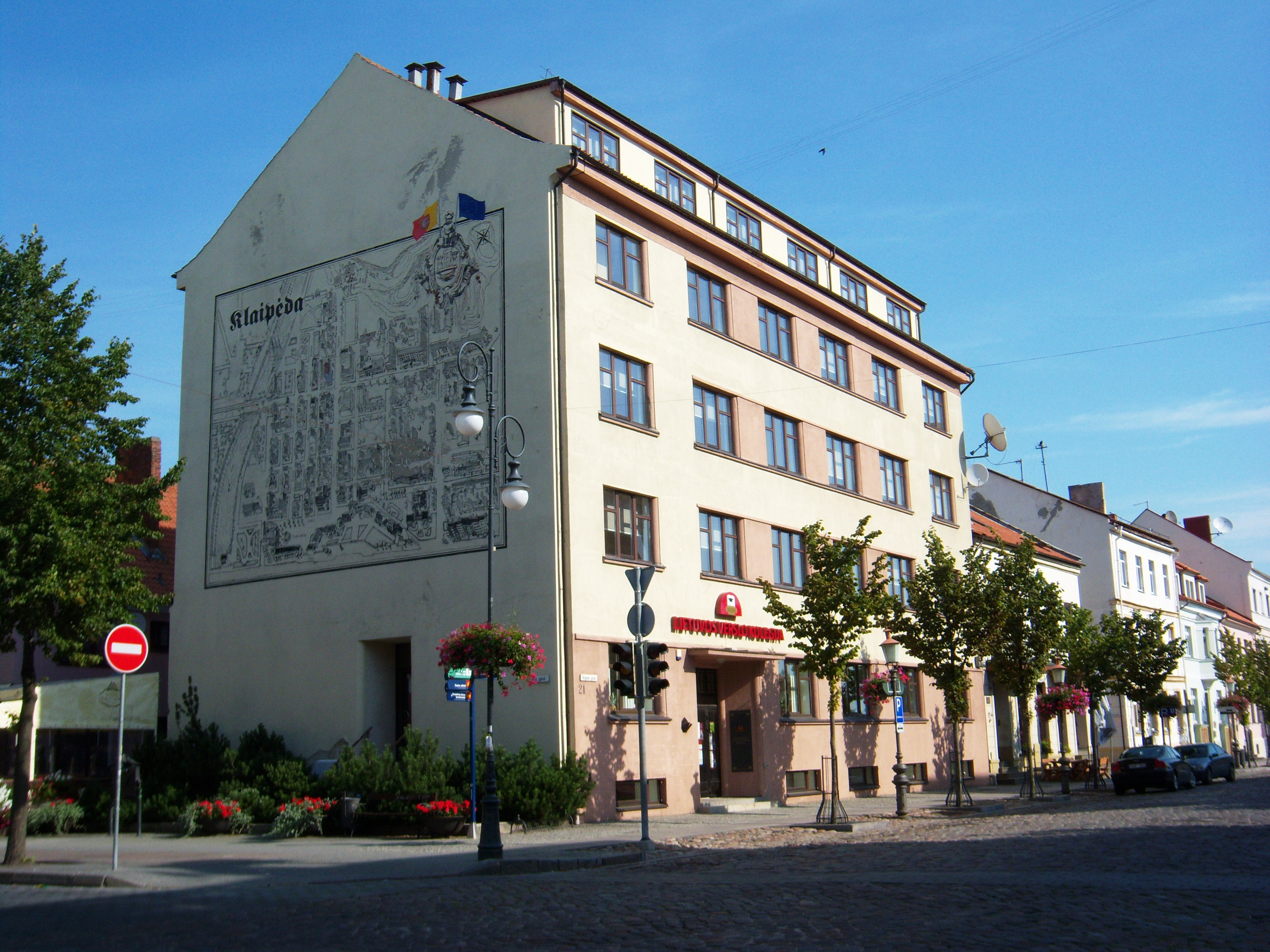 Lithuanian Business College, Klaipėda, Lithuania